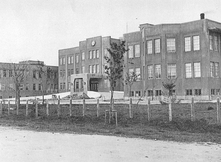 Karafuto Prefectural Toyohara Hospital